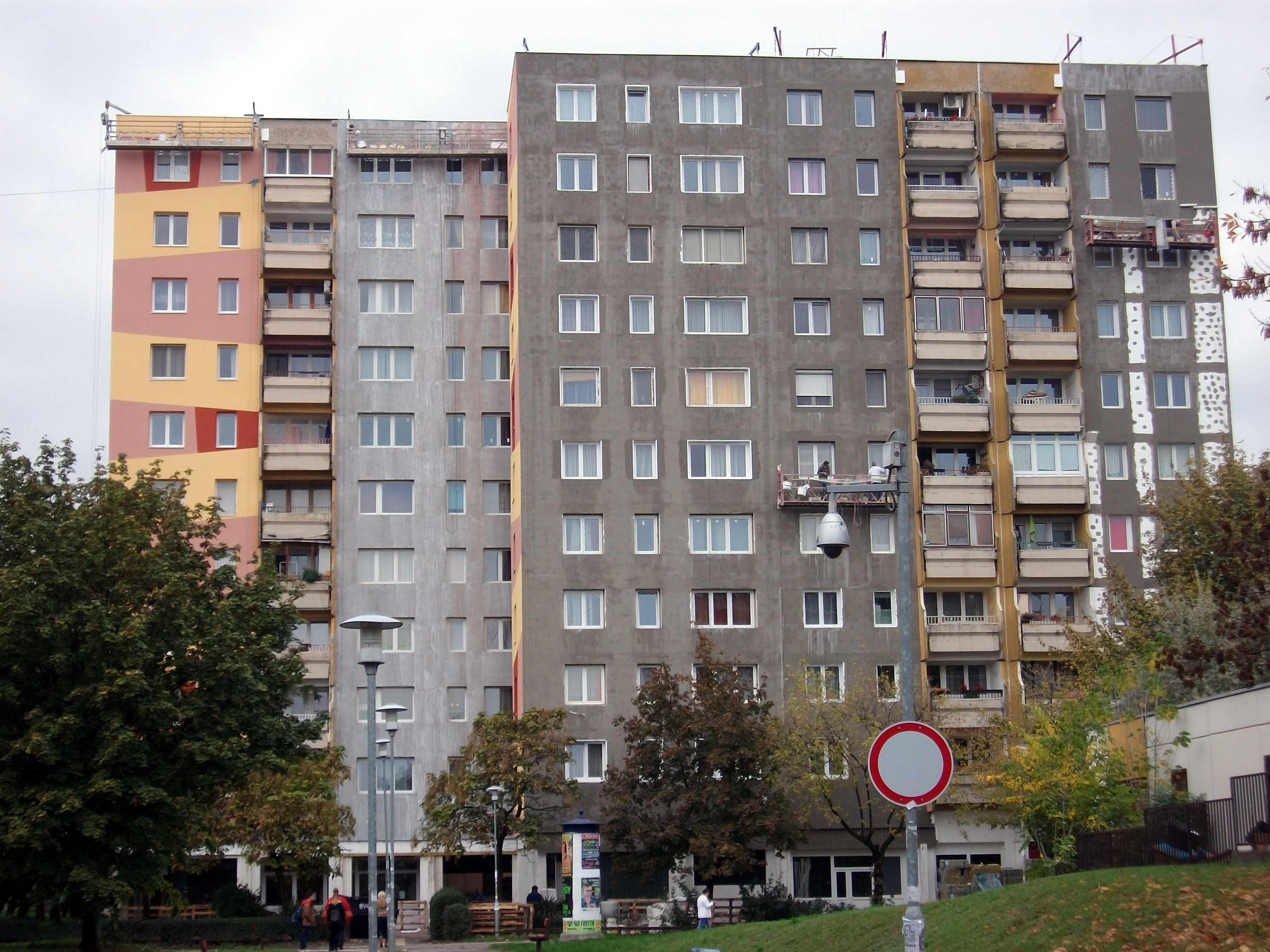 Panel building under renovation in Békásmegyer, Budapest, Hungary (2015)